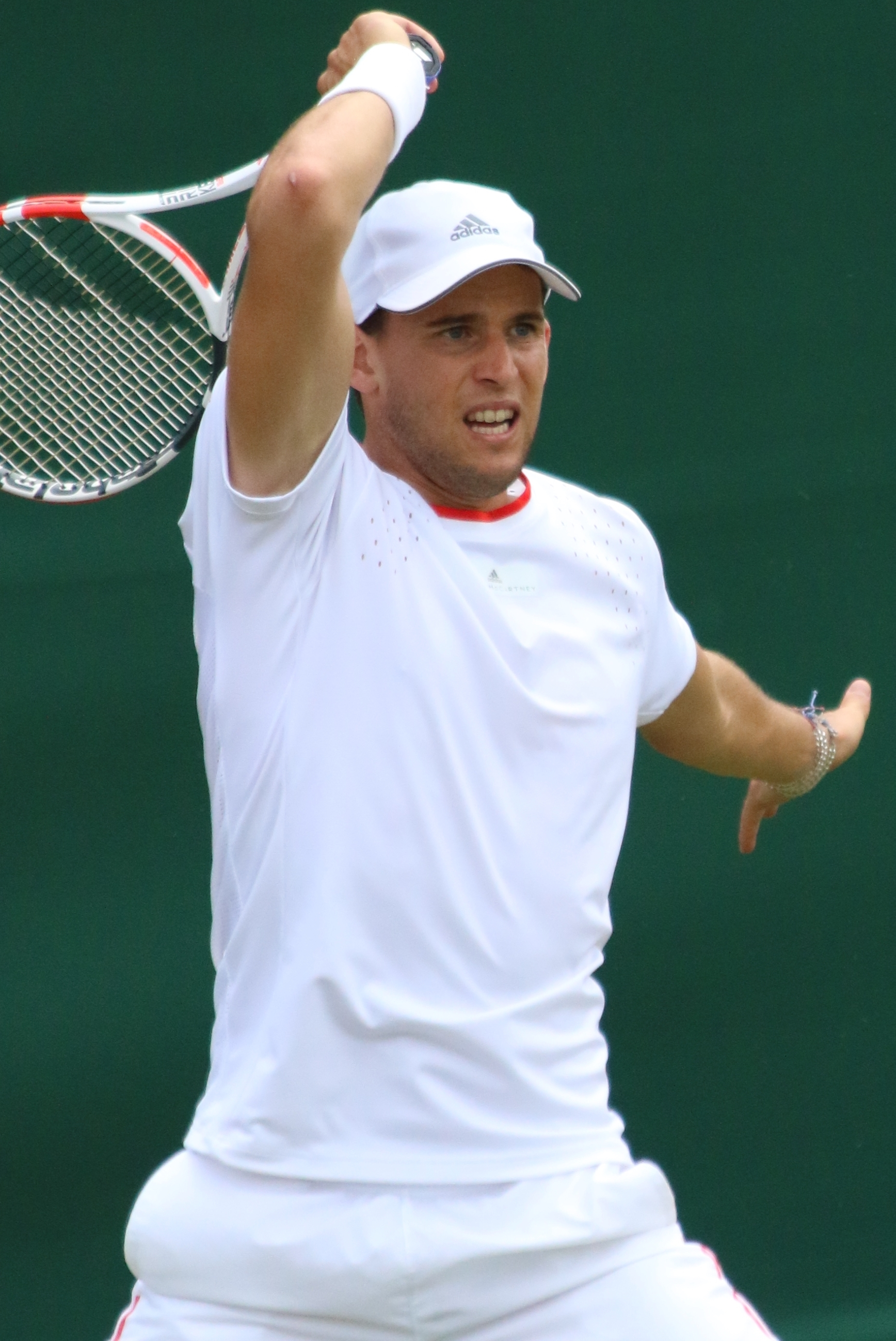 Thiem WM19 (16)